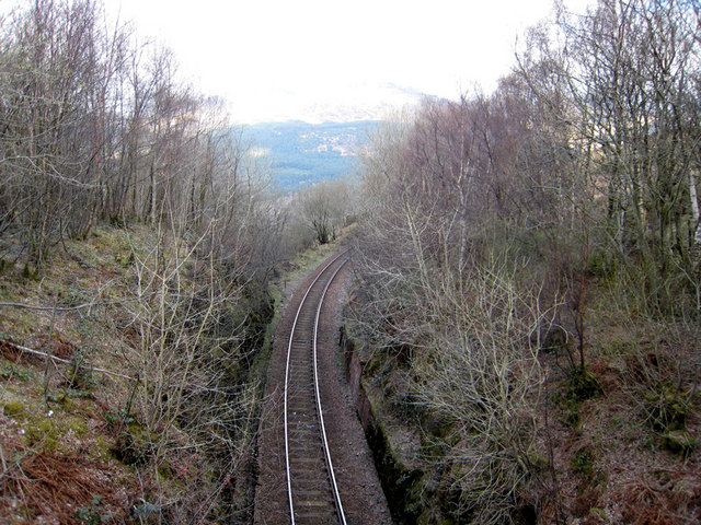 West Highland Railway Line at Glen Douglas Taken from the north roadbridge over the West Highland Railway Line at Glen Douglas.